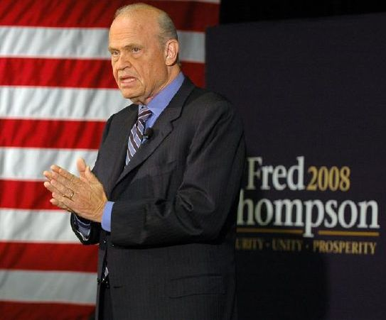 Fred in Sioux City